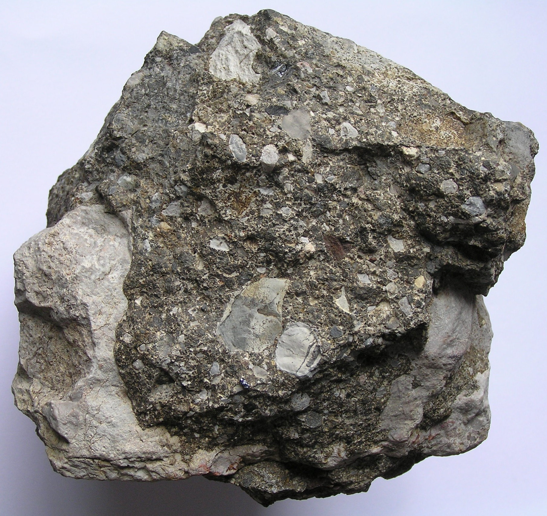 Tuffit